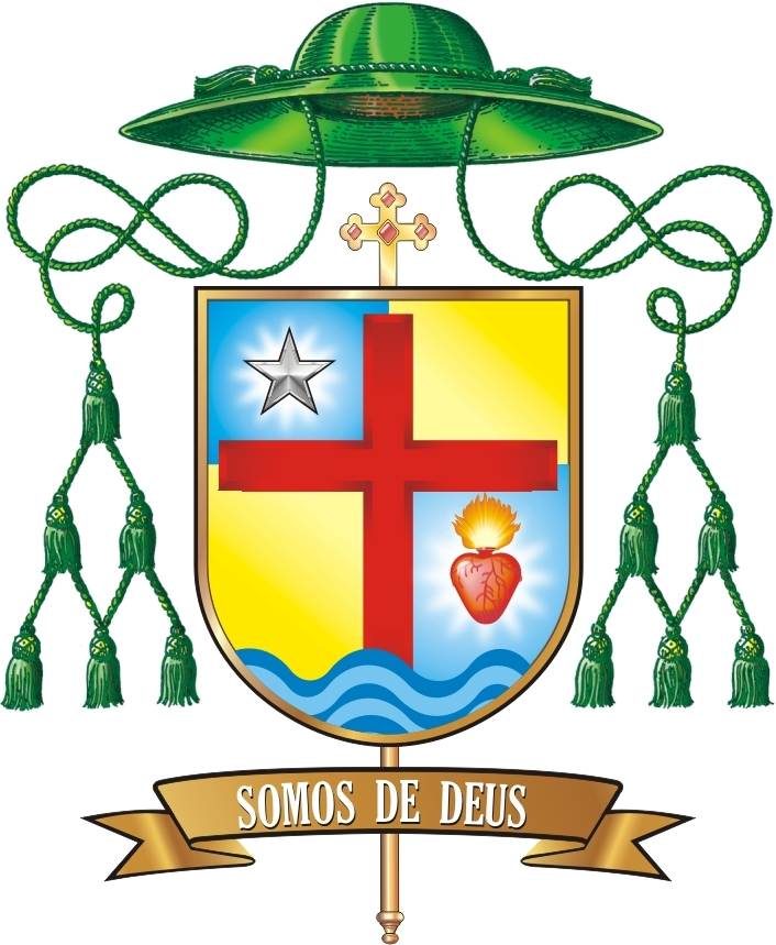 Coat of arms of Bishop D. José Valmor César Teixeira